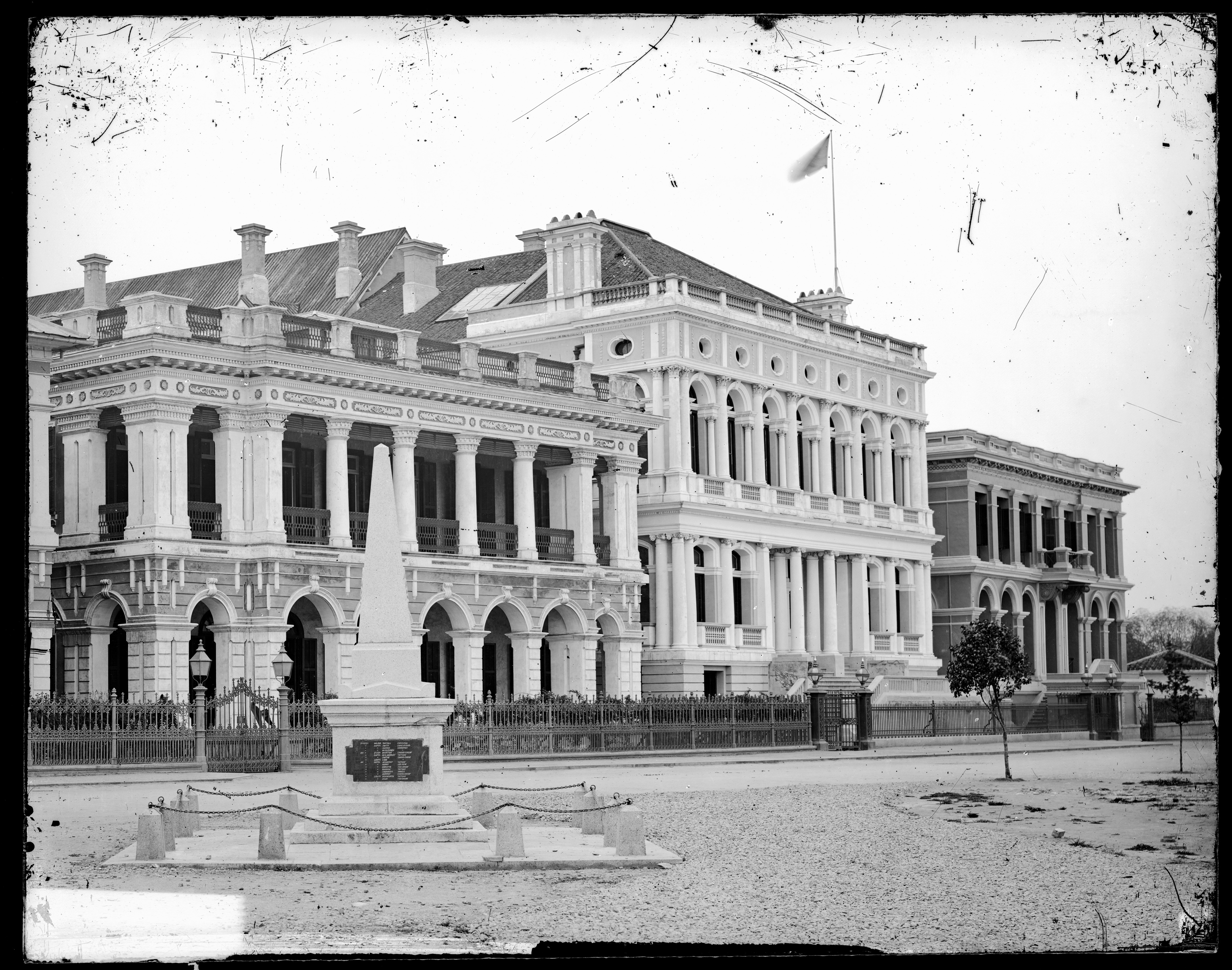 Shanghai, Kiangsu province, China. Photograph by John Thomson, 1871.禅臣洋行、东方汇理银行、共济会大楼 Iconographic Collections Keywords: J. Thomson